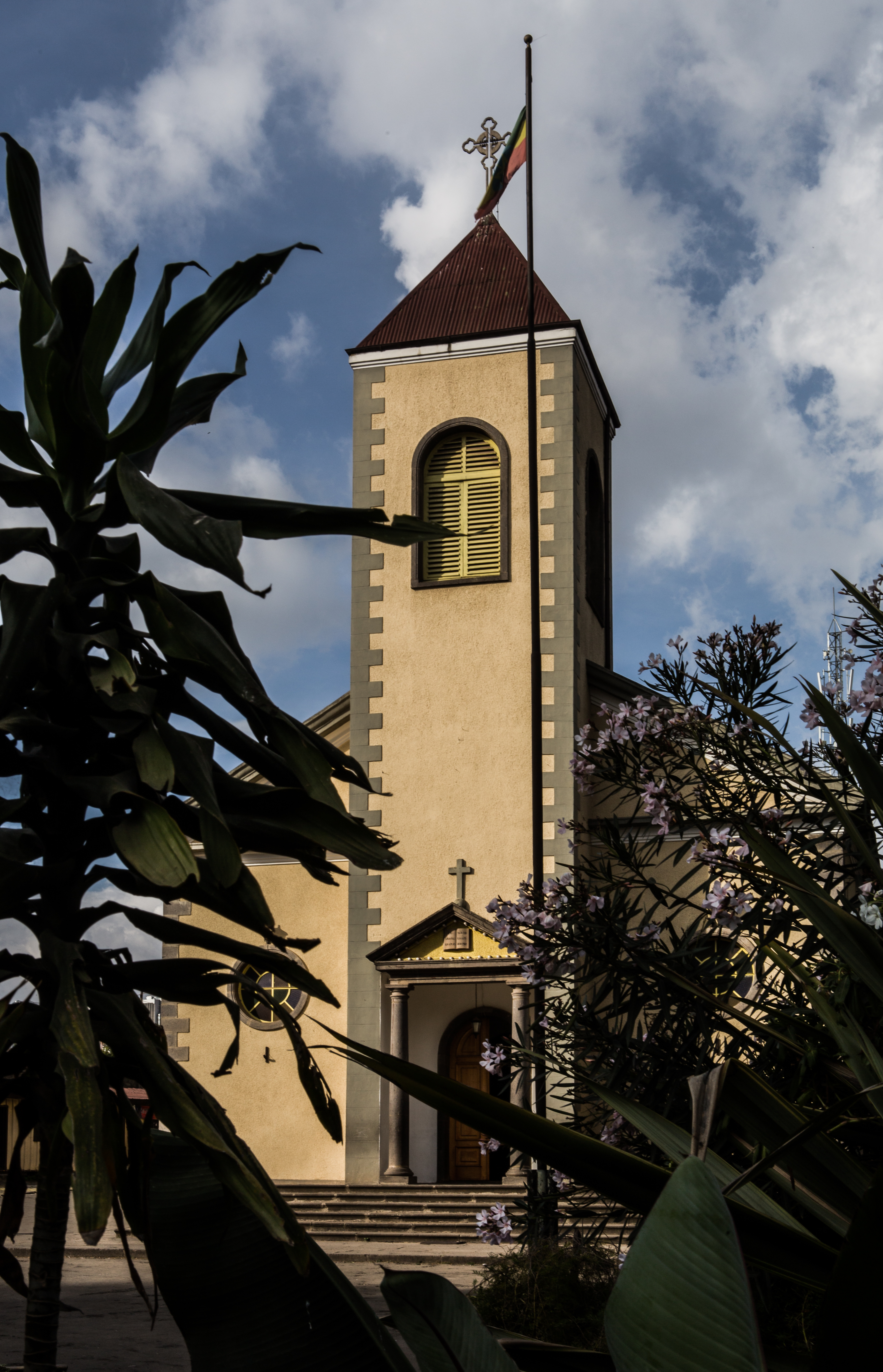 Amist Kilo Church, "mother church" of Ethiopian Evangelical Church Mekane Yesus.